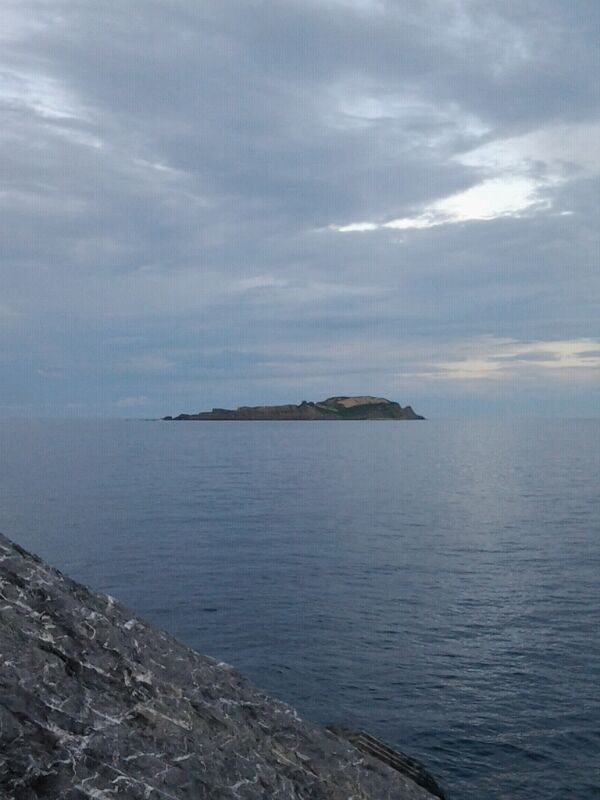 Bermeo´s Izaro isle